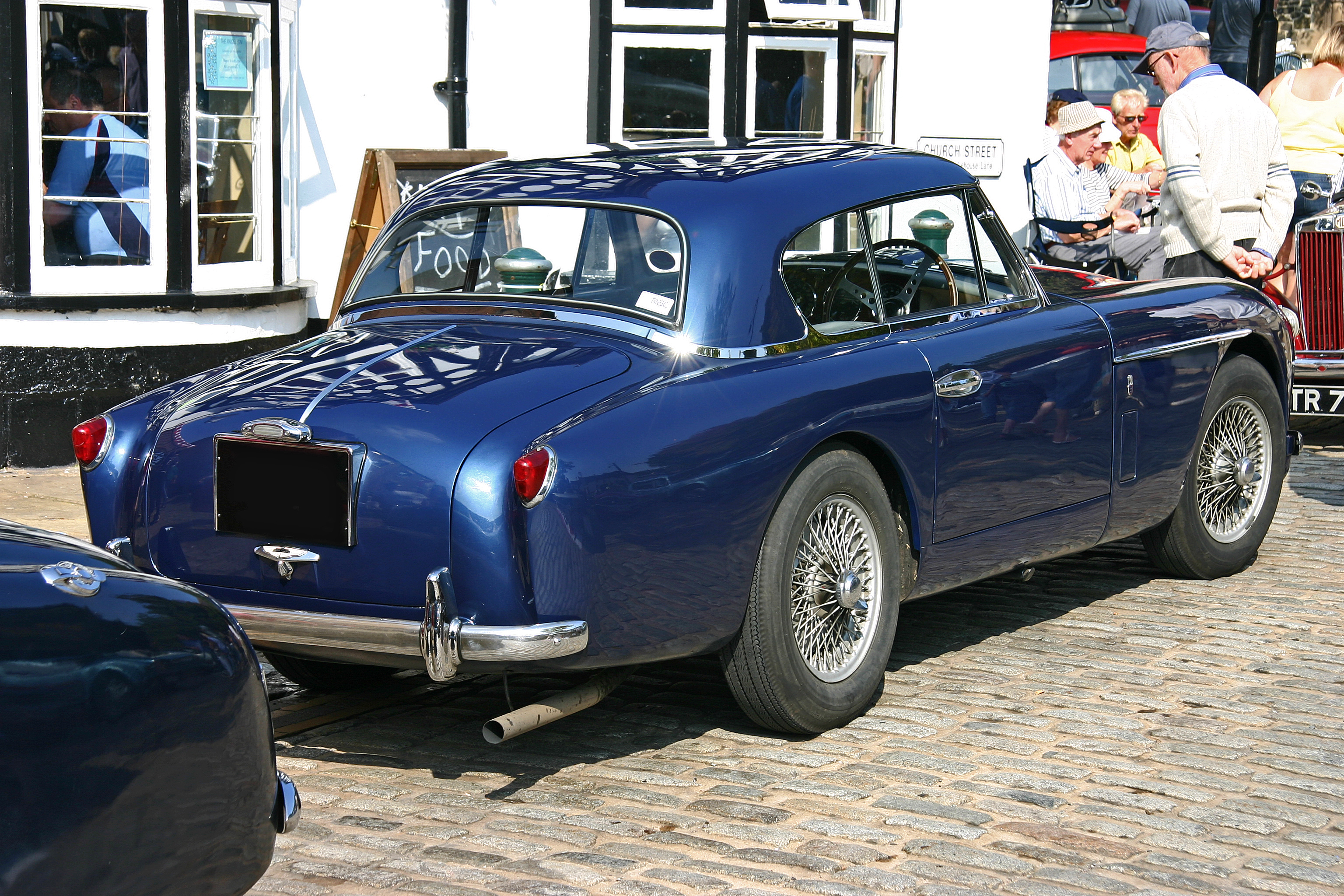 Aston Martin DB2/4 MkII FHC. Sometimes erroneously called a notchback, the Fixed Head Coupé bodystyle was an option for the DB2/4 MkII from 1955 to 1957. The body was built by Tickford, which had been purchased by David Brown.